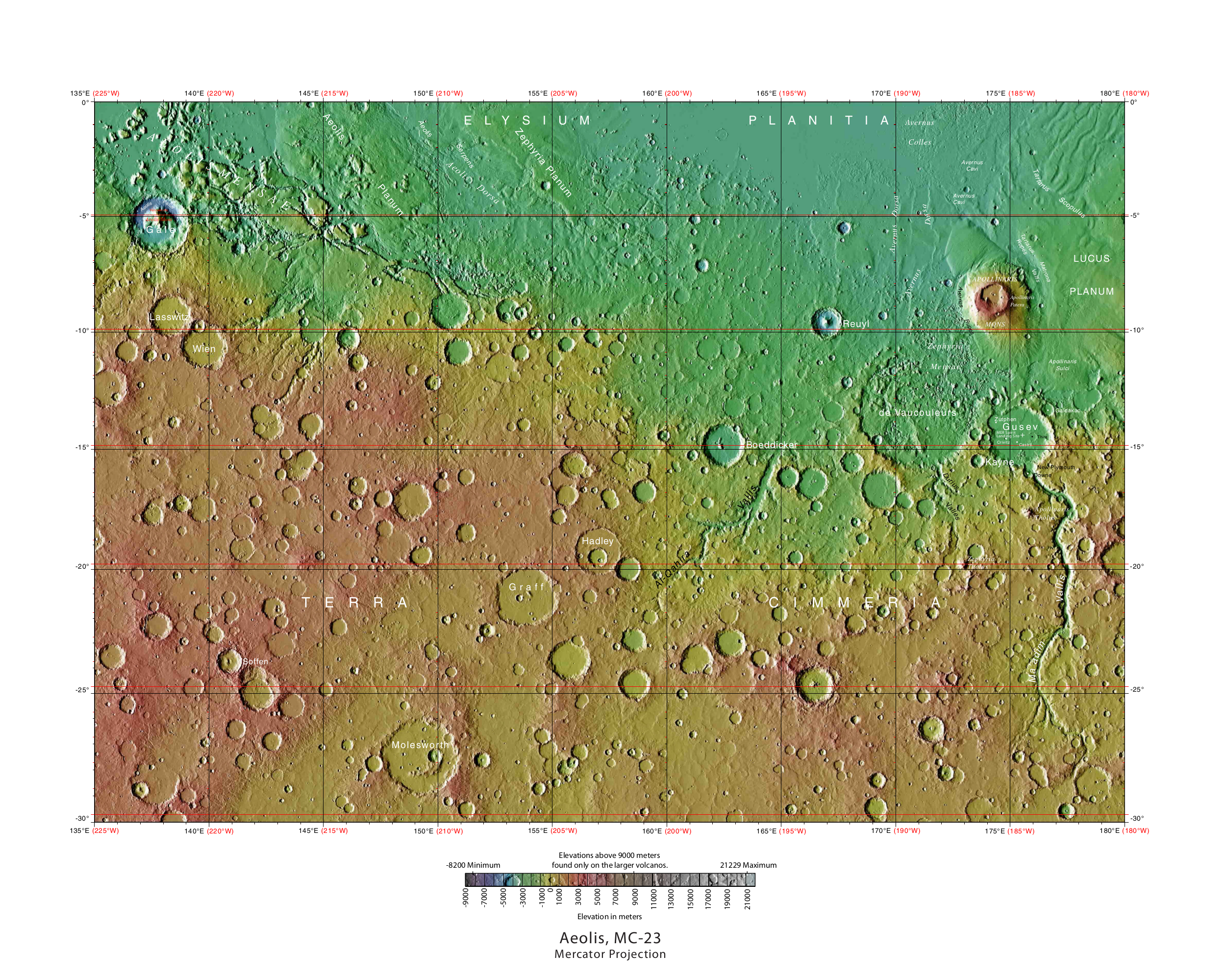 MOLA Topographic Map of Aeolis Quadrangle (MC-23) on the planet Mars. NOTE: Converted the original PDF file to a PNG File (via GIMP v2.8.4 program) - and uploaded to Wikimedia Commons.